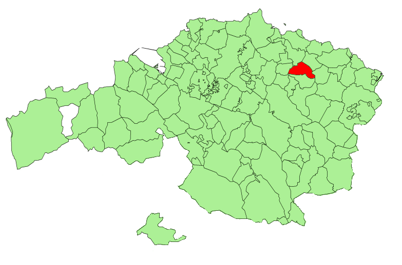 Kortezubi municipality in the province of Biscay